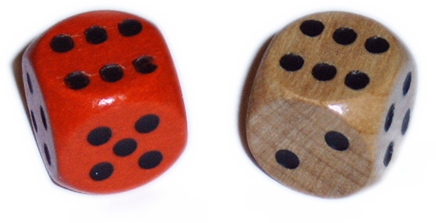 Source: Alexander Dreyer Two dice, all combination of eyes. Photographed by myself.